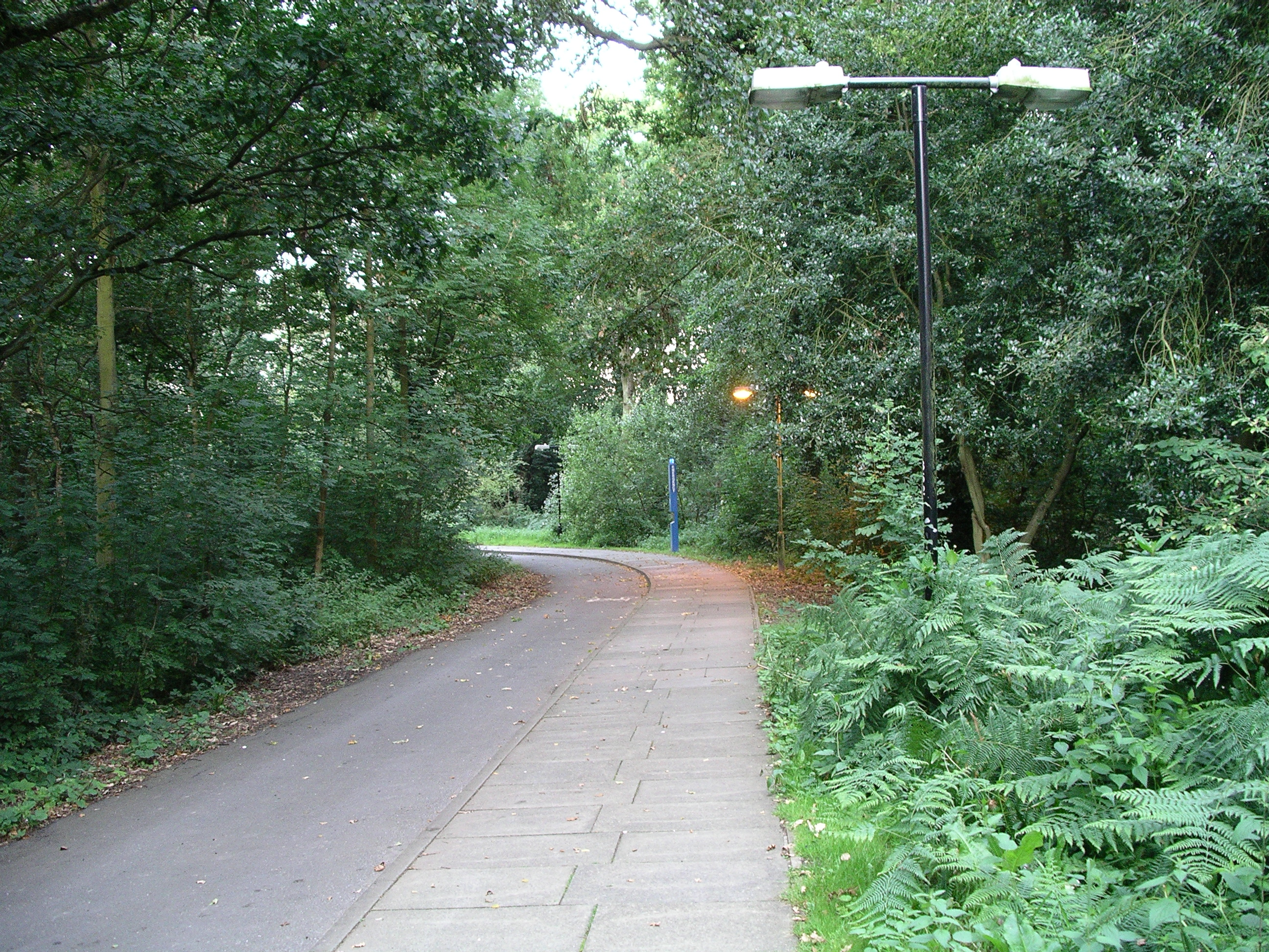 Photo taken by me of Tocil Woods and the path at Warwick University, Coventry, England.